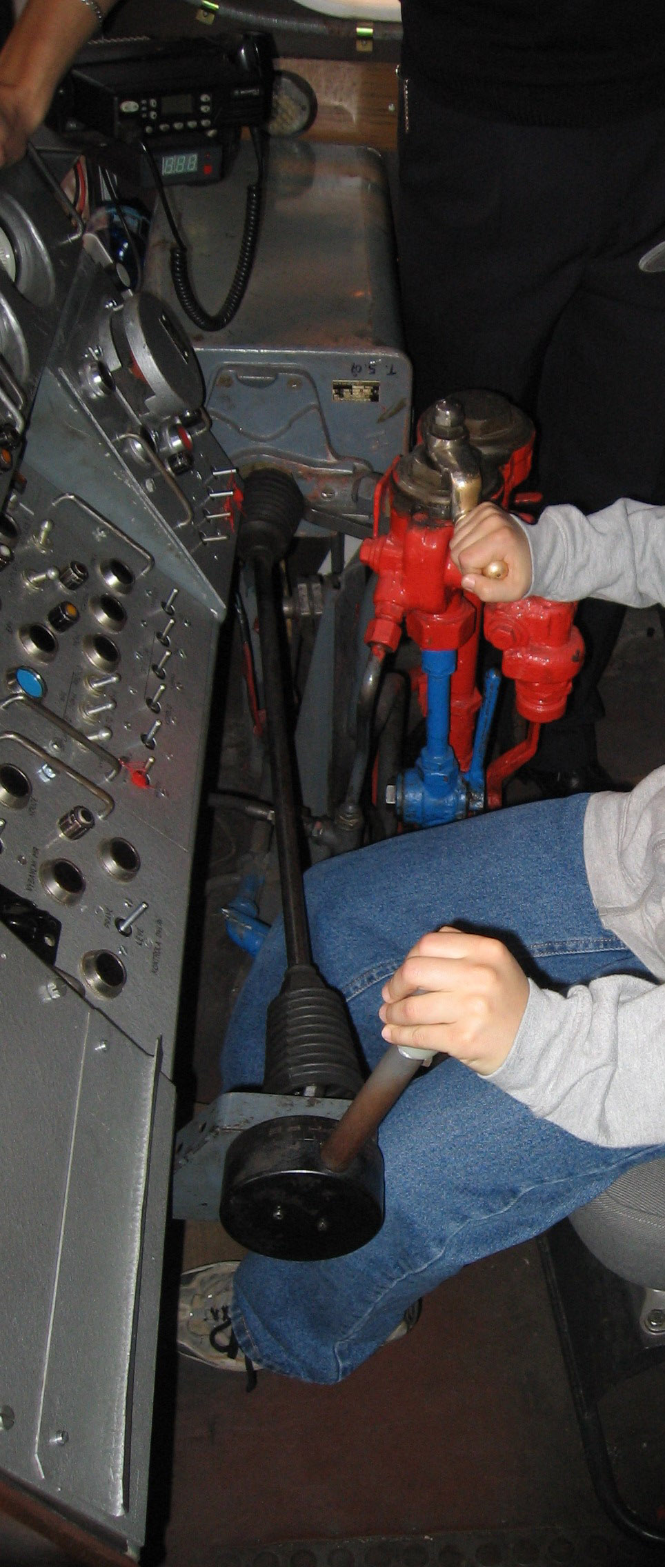 Prague subway coach 81-71 - driving console